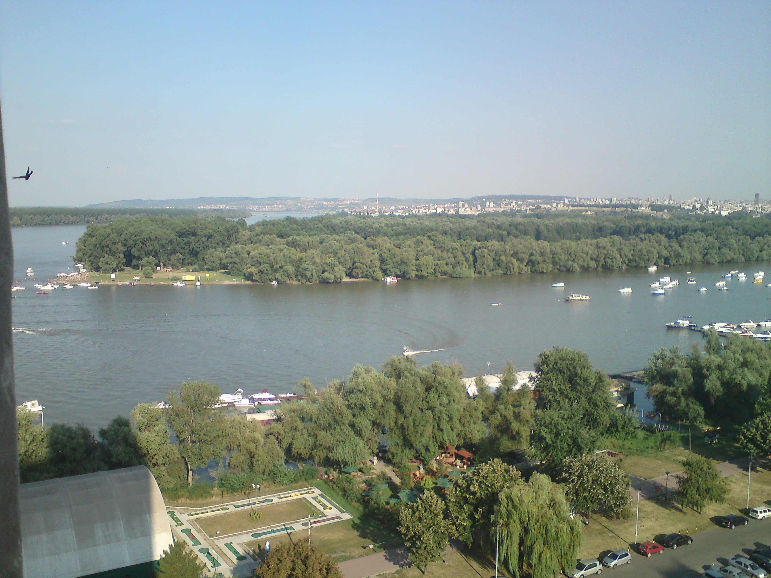 Veliko ratno ostrvo (Great war island) in the Danube river with Lido beach to the far right (north). In the background Belgrade, Serbia. View from 14th floor of highrising residential building on Kej Oslobodjenja, Zemun, Serbia.